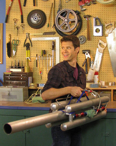 Cropped image of John Edgar Park on the Make: television set with Casimir's air cannon.